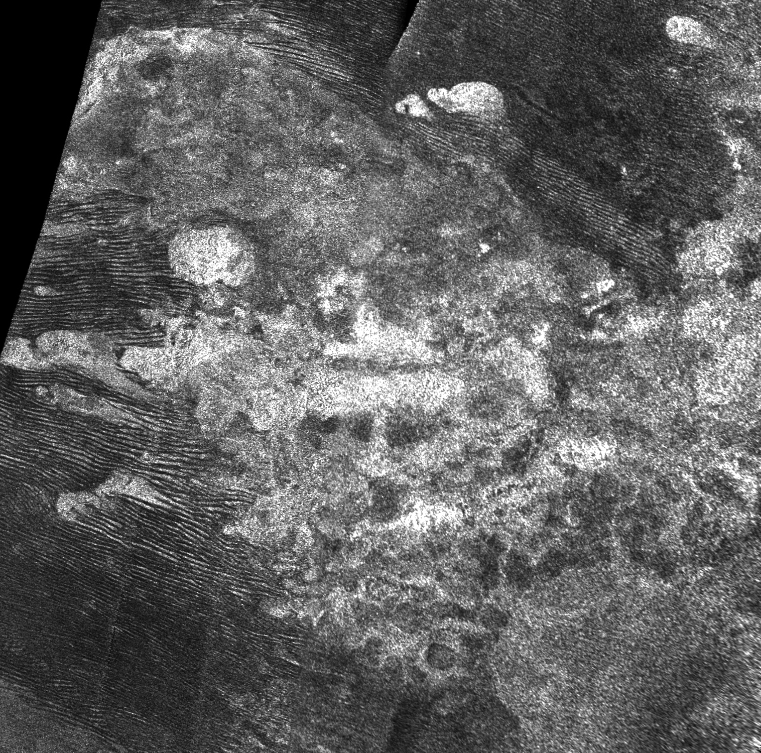 Mosaic of radar images of Titan surface by Cassini. 128 pix/deg (2.85 pix/km). Made from aligned and jointed parts of radar strips T25 (February 22, 2007; left part of the picture) and T28 (April 10, 2007; right part). Erebor Mons and Bilbo Colles can be seen (look a map with names). The image was cropped, rotated on 75 deg counterclockwise (to make north on the top) and it's brightness was increased.